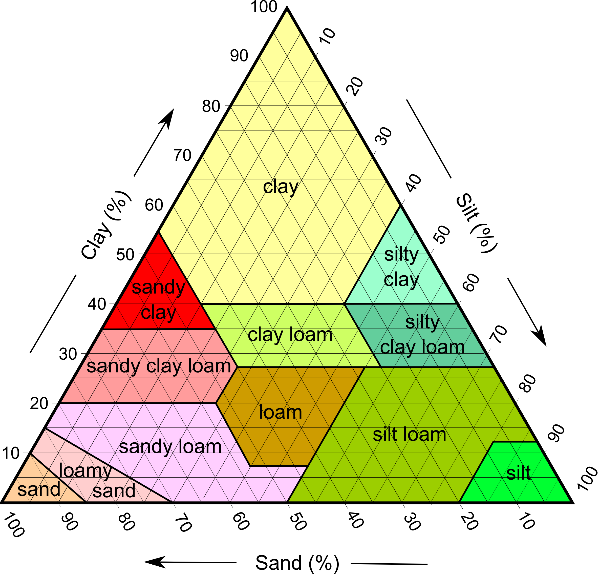 A soil texture diagram redrawn from the USDA webpage [1]